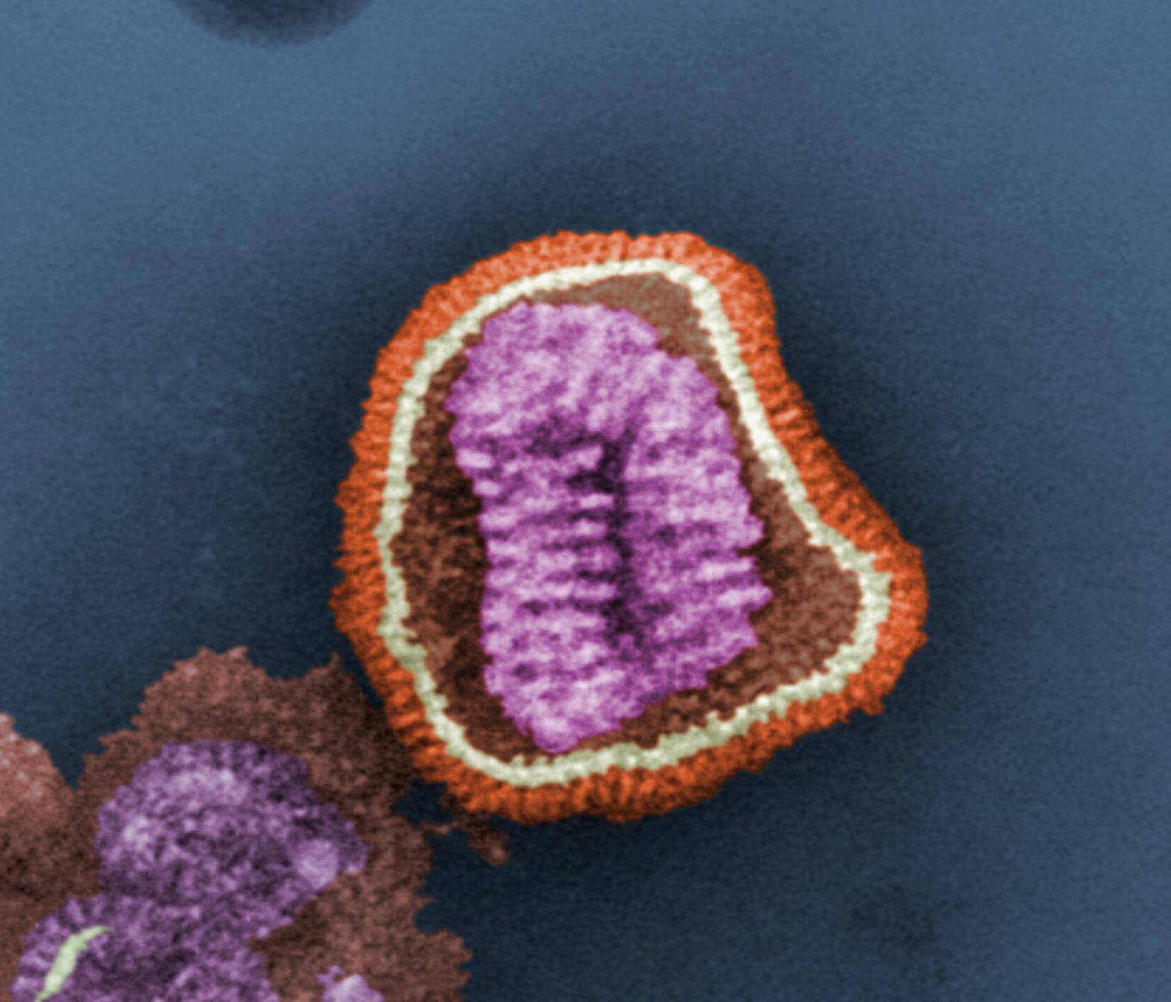 This (Pseudocolored) negative-stained (false-colored) transmission electron micrograph (TEM) depicts the ultrastructural details of an influenza virus particle, or “virion”. A member of the taxonomic family Orthomyxoviridae, the influenza virus is a single-stranded RNA organism The flu is a contagious respiratory illness caused by influenza viruses. It can cause mild to severe illness, and at times can lead to death. The best way to prevent this illness is by getting a flu vaccination each fall. Every year in the United States, on average: - 5% to 20% of the population gets the flu - more than 200,000 people are hospitalized from flu complications, and - about 36,000 people die from flu. Some people, such as older people, young children, and people with certain health conditions, are at high risk for serious flu complications. See PHIL 10073 for a colorized version of this image. Influenza A and B are the two types of influenza viruses that cause epidemic human disease. Influenza A viruses are further categorized into subtypes on the basis of two surface antigens: hemagglutinin and neuraminidase. Influenza B viruses are not categorized into subtypes. Since 1977, influenza A (H1N1) viruses, influenza A (H3N2) viruses, and influenza B viruses have been in global circulation. In 2001, influenza A (H1N2) viruses that probably emerged after genetic reassortment between human A (H3N2) and A (H1N1) viruses began circulating widely. Both influenza A and B viruses are further separated into groups on the basis of antigenic characteristics. New influenza virus variants result from frequent antigenic change (i.e., antigenic drift) resulting from point mutations that occur during viral replication. Influenza B viruses undergo antigenic drift less rapidly than influenza A viruses.